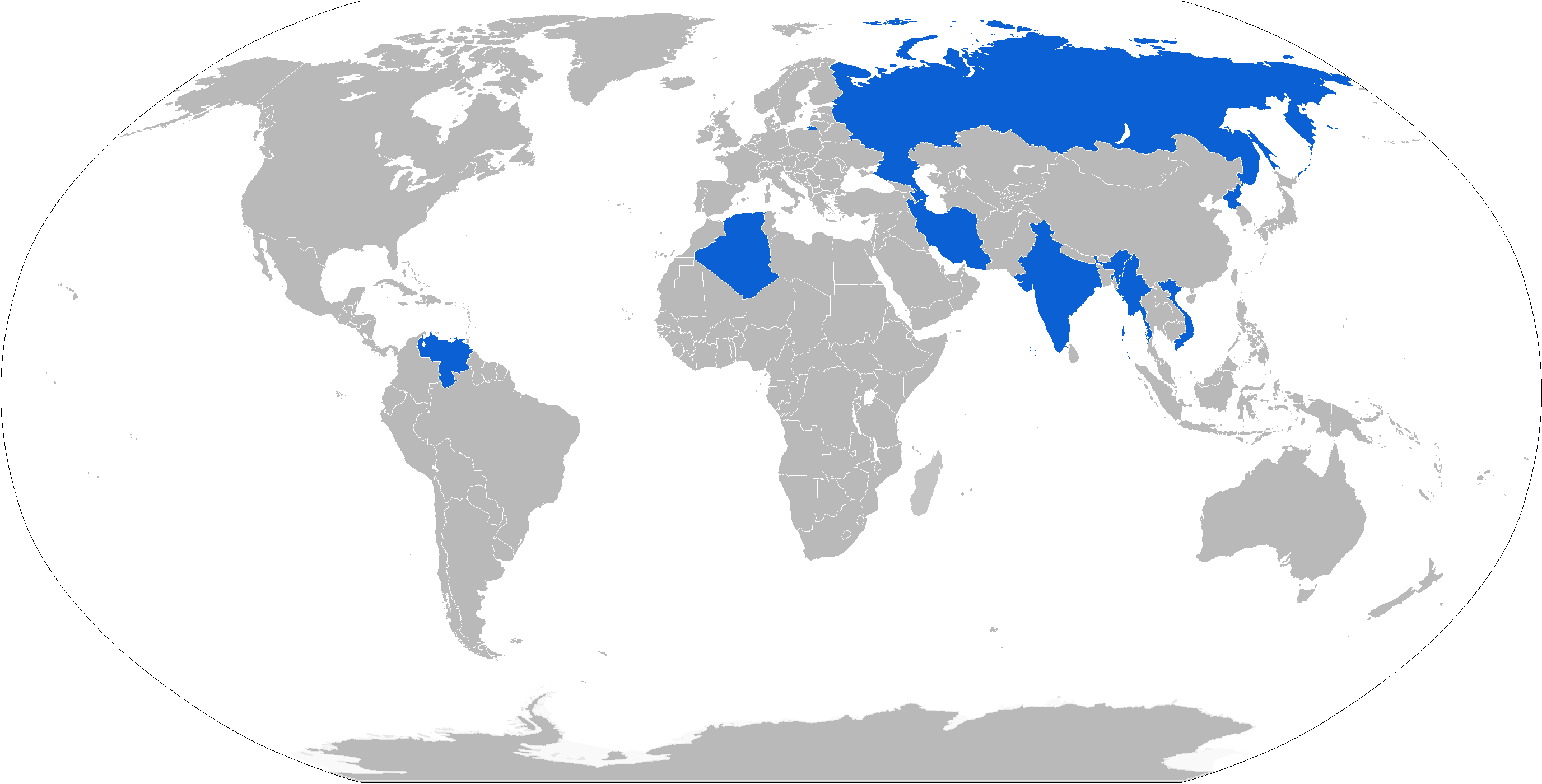 Map with Kh-35 operators in blue